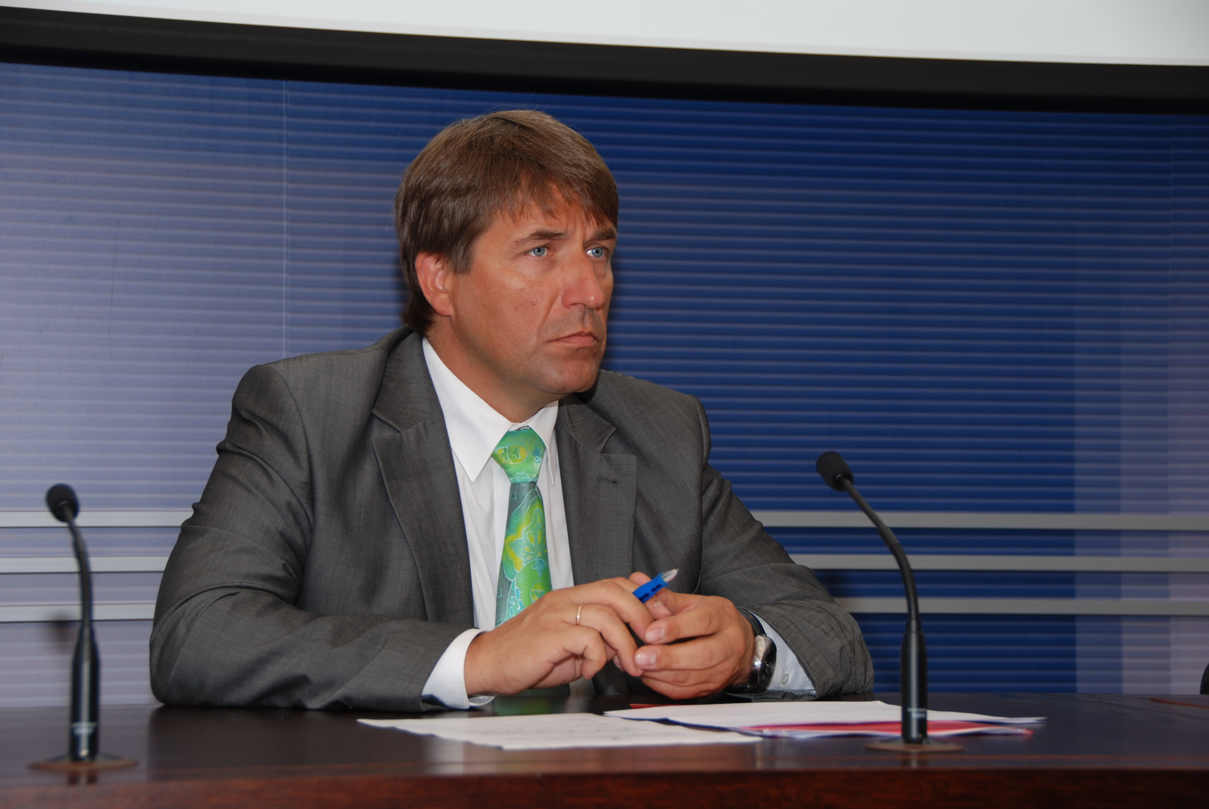 Minister of Economics of Latvia Artis Kampars during a press conference.